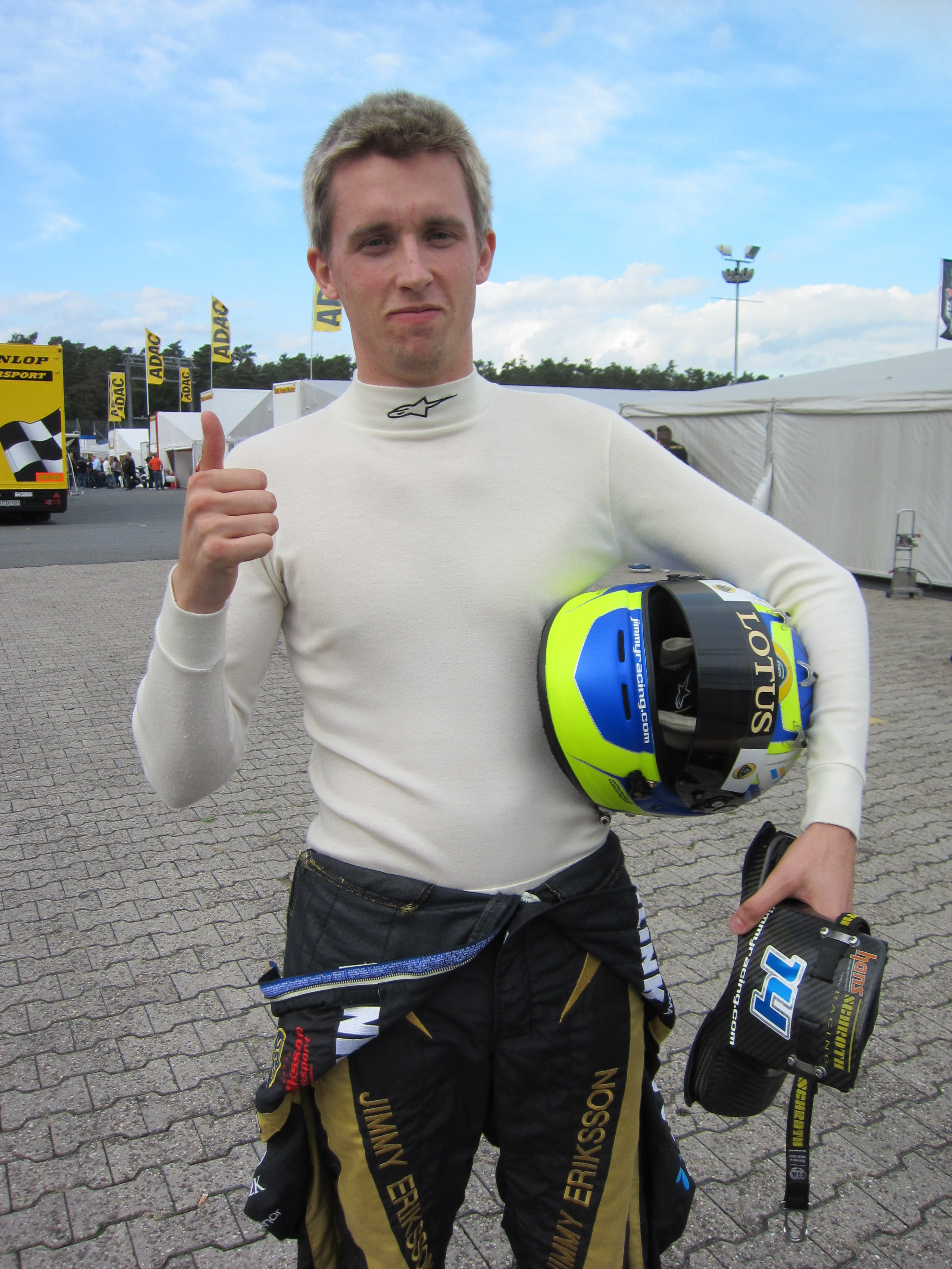 Jimmy Eriksson: the photo was taken during 2012's ADAC GT Masters race weekend at Hockenheim